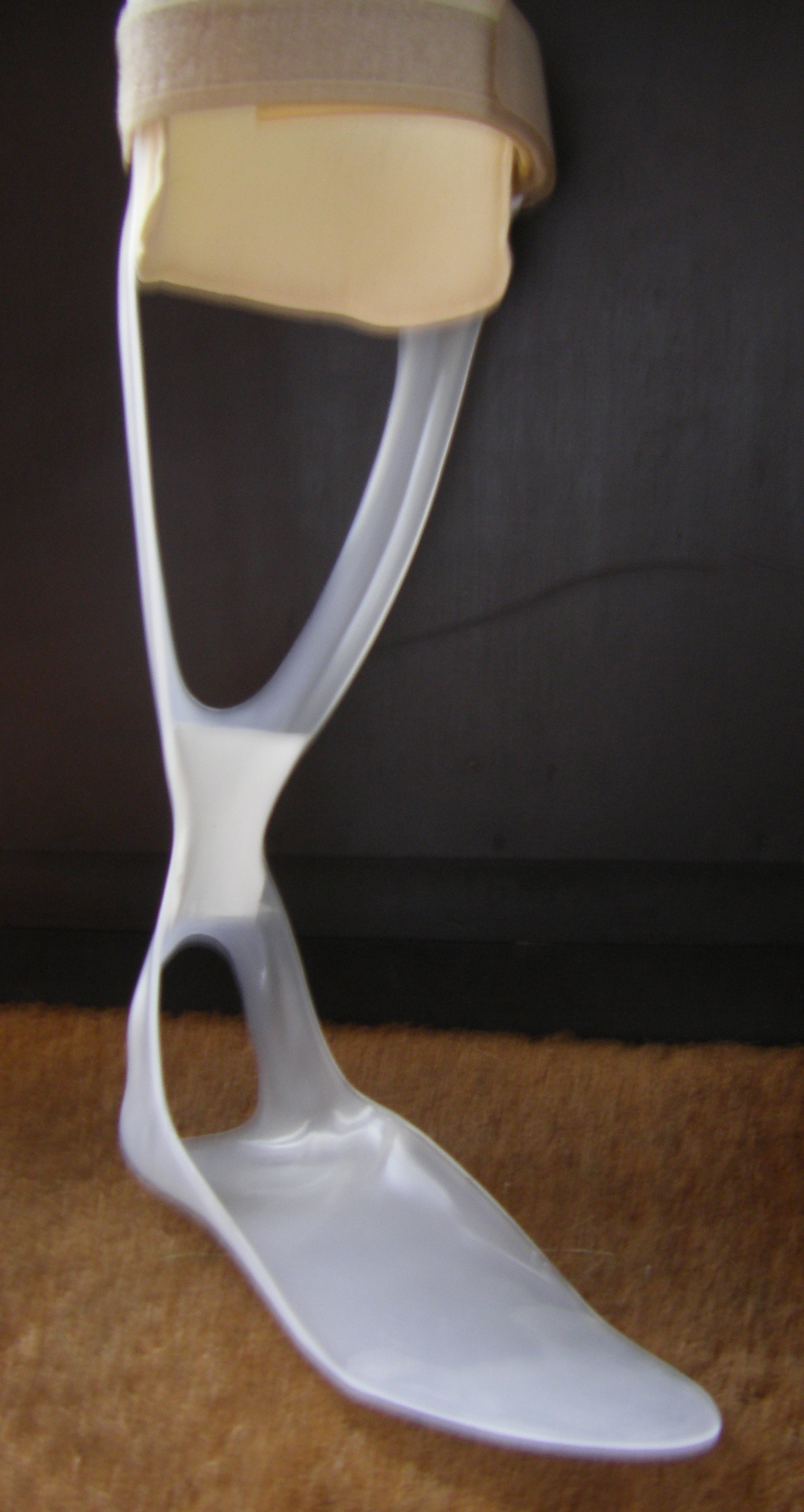 Ankle-foot orthesis